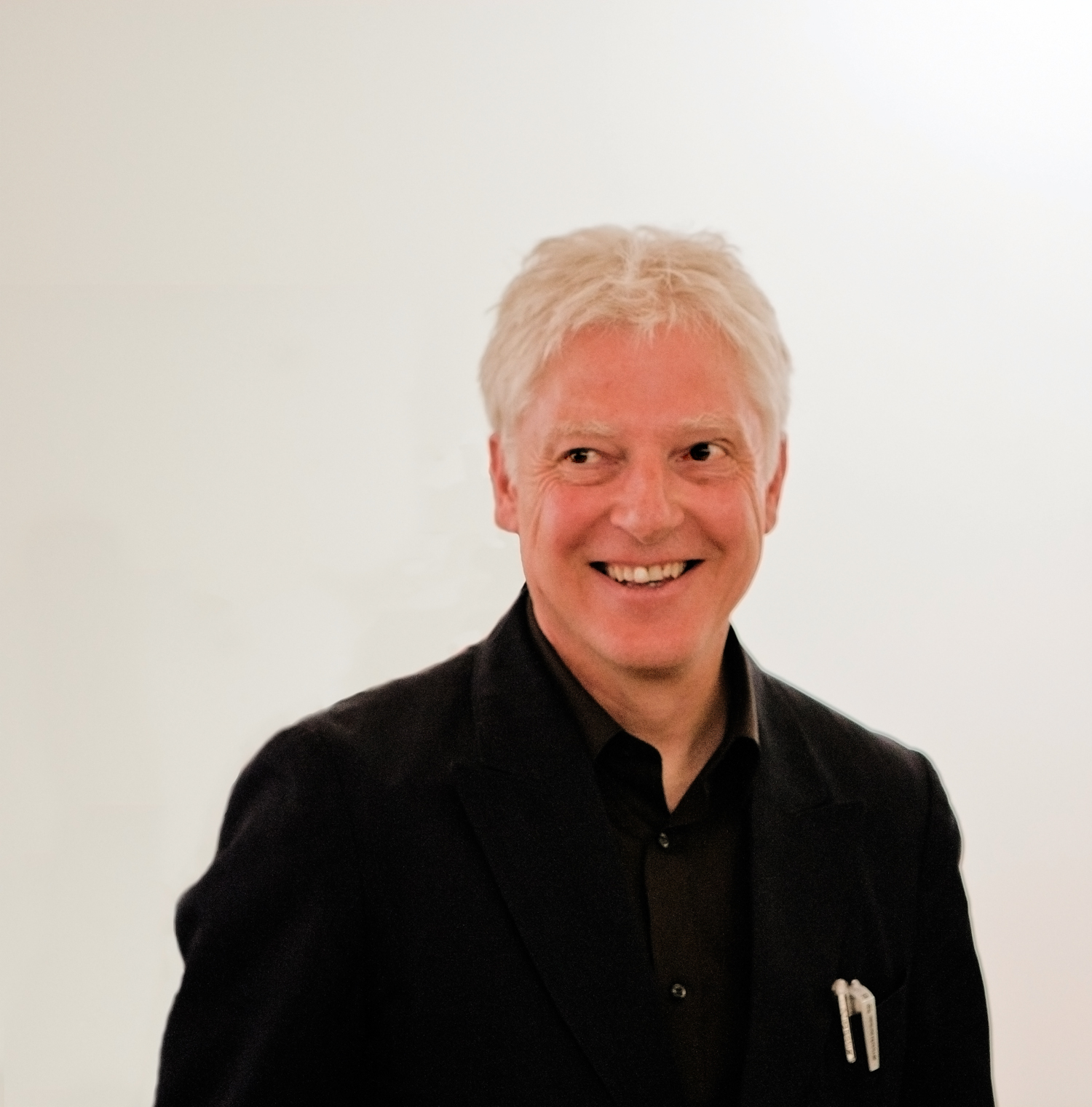 German photographer Joachim Brohm